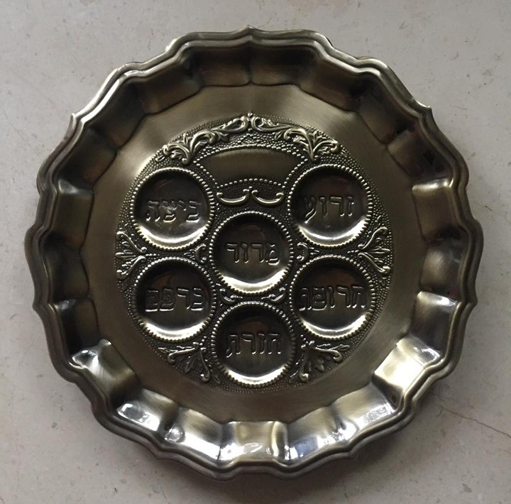 Keara